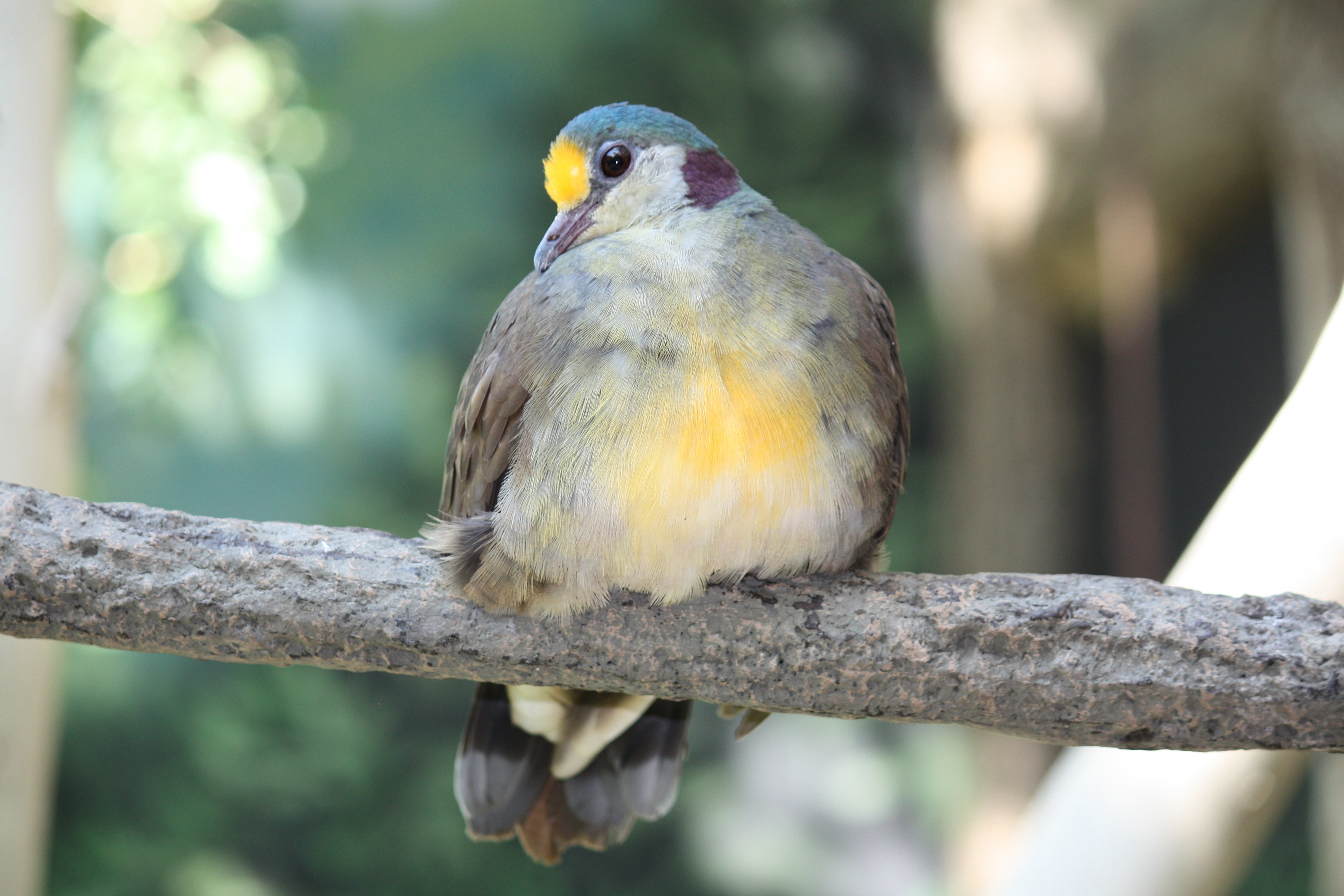 Yellow-breasted Ground Dove Gallicolumba tristigmata at Louisville Zoo